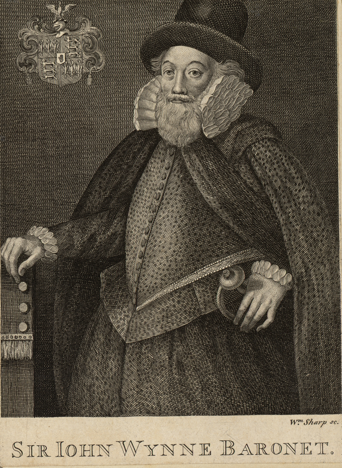 An image from a set of 8 extra-illustrated volumes of A tour in Wales by Thomas Pennant (1726-1798) that chronicle the three journeys he made through Wales between 1773 and 1776. These volumes are unique because they were compiled for Pennant's own library at Downing. This edition was produced in 1781. The volumes include a number of original drawings by Moses Griffiths, Ingleby and other well known artists of the period. Thomas Pennant (1726-1798)